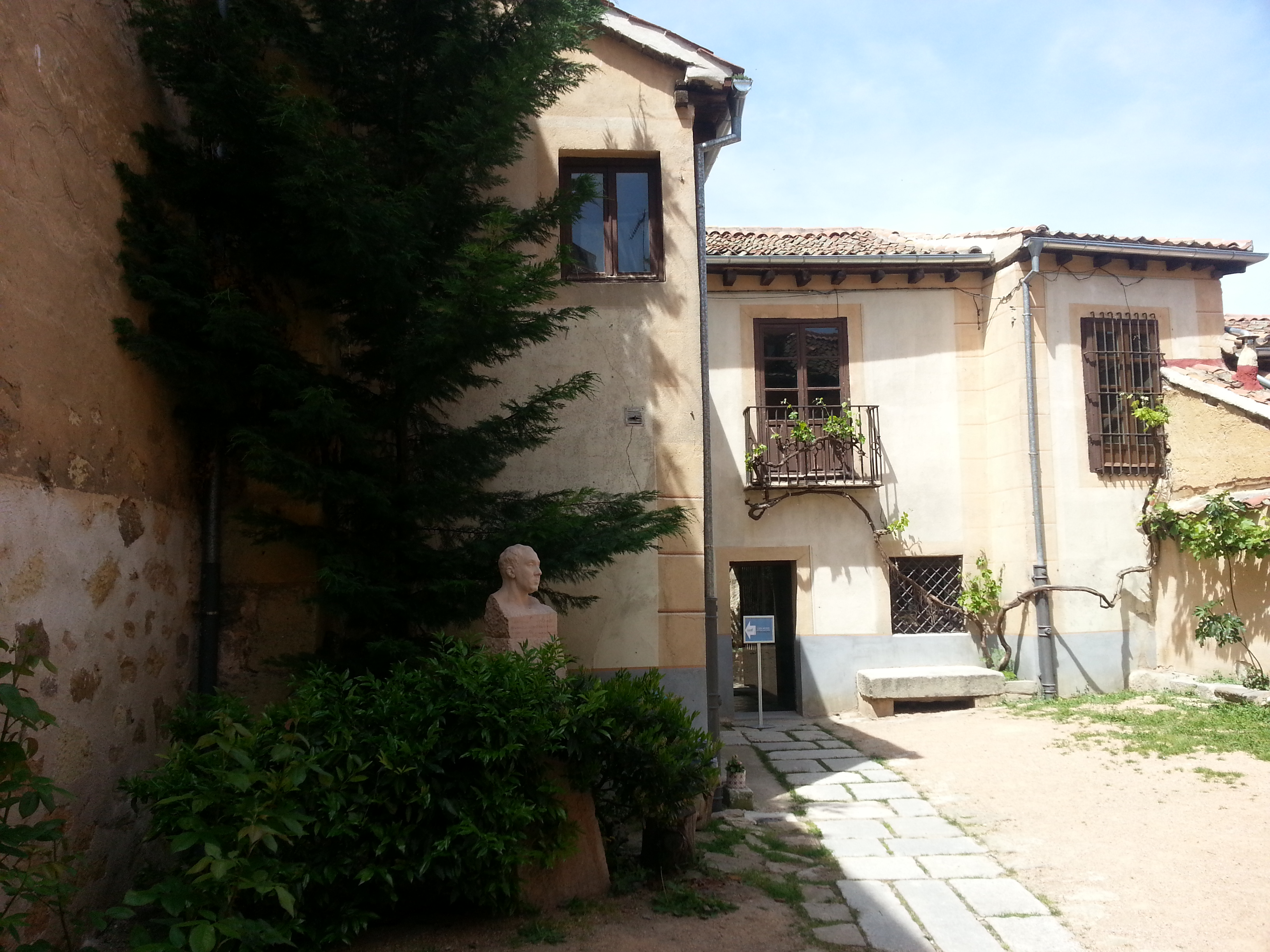 House-Museum of Antonio Machado, on calle de los Desamparados, 5 (Segovia); where he lived between 1919 and 1932 Spanish poet.